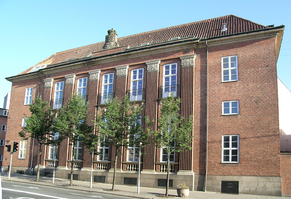 Jernbanegade 27, Kolding, Denmark. Built 1924 as a local department of Nationalbanken. Architect Ernst Petersen. Neoclassical style.